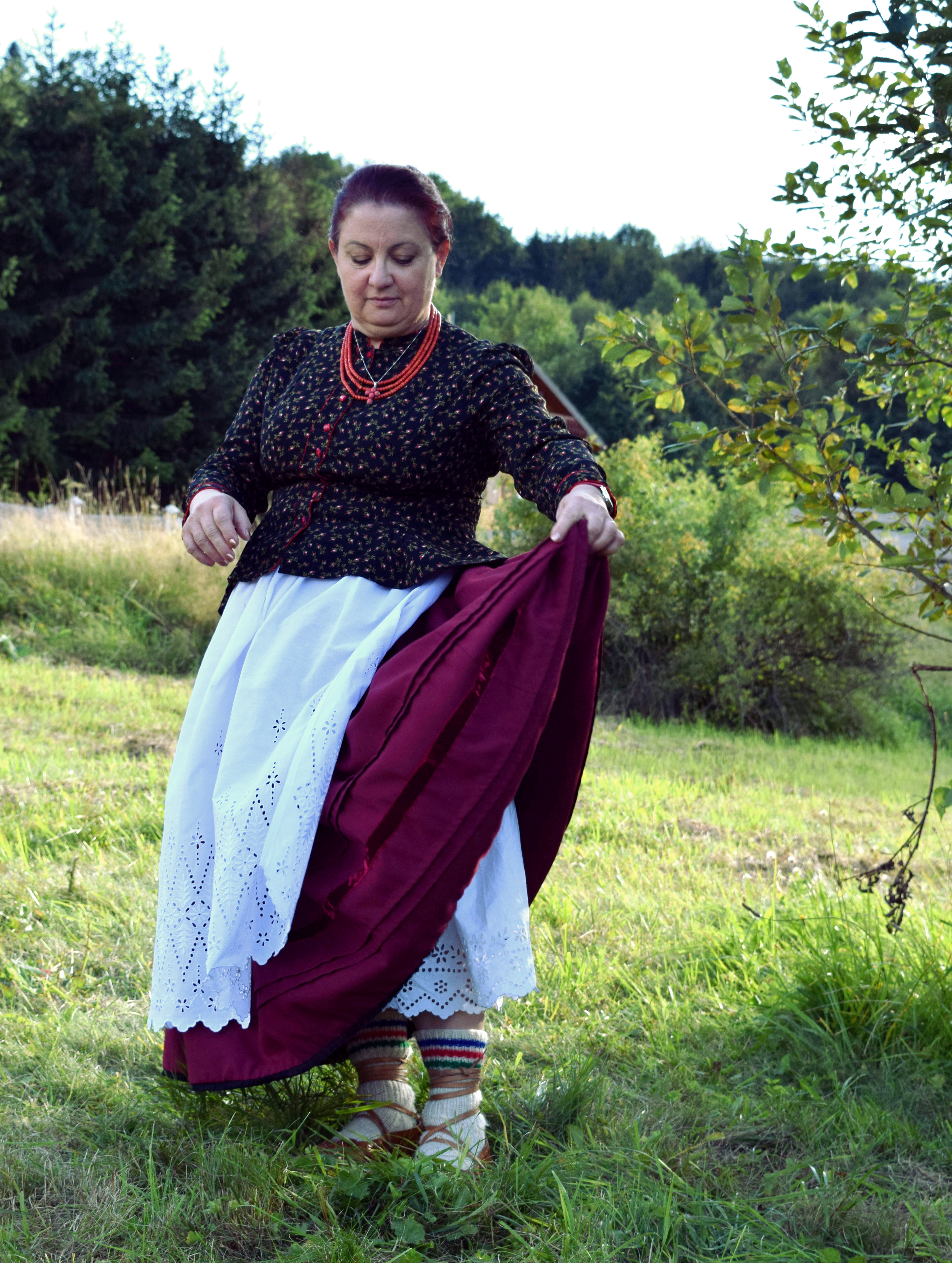 Artisan seamstress Jadwiga Jurasz presenting layers of Żywiec Beskids folk dress for women, Juszczyna 2016